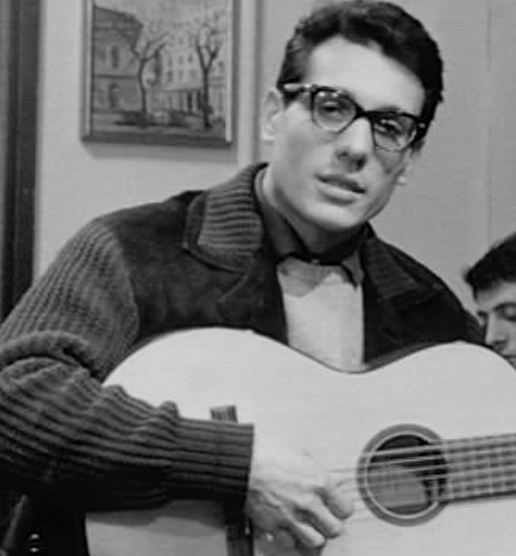 screenshot from the film La Vita Agra (1964)